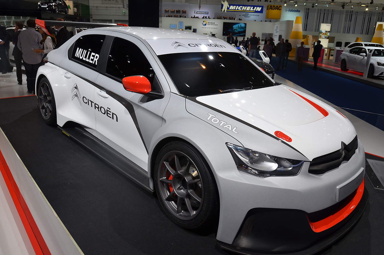 IAA Frankfurt 2013: Citroen C-Elysee WTCC / Photo: Raphael Jahn ______________________ Please feel free to use this image for FREE under the Creative Commons (CC) licence. However, if you use the image, pls set a backlink to and give credit as following: "Image: ". For highres images or any other inquiries pls contact mailto: . Thanks.